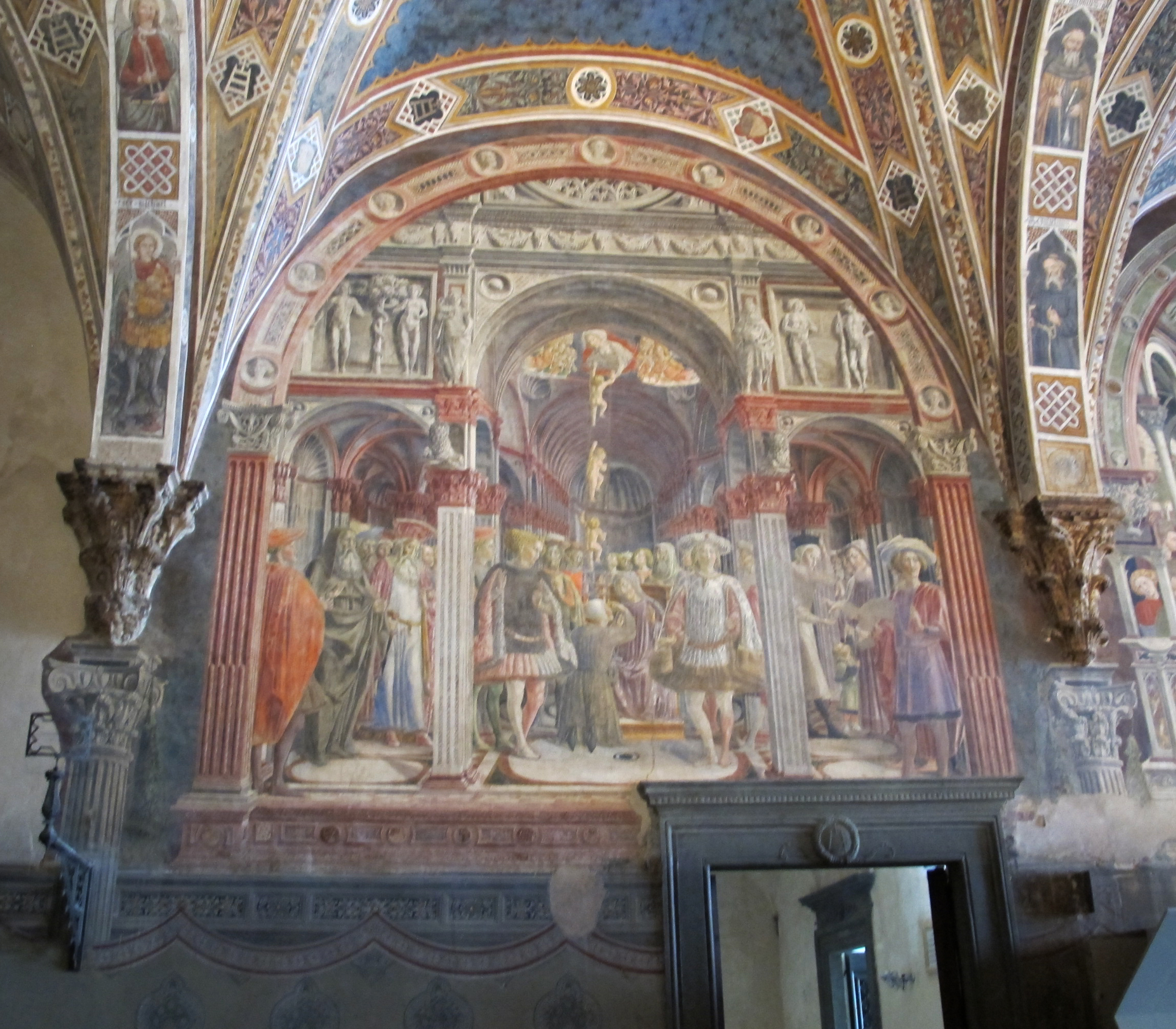 Pilgrims Lane in Santa Maria della Scala Hospital (Siena)